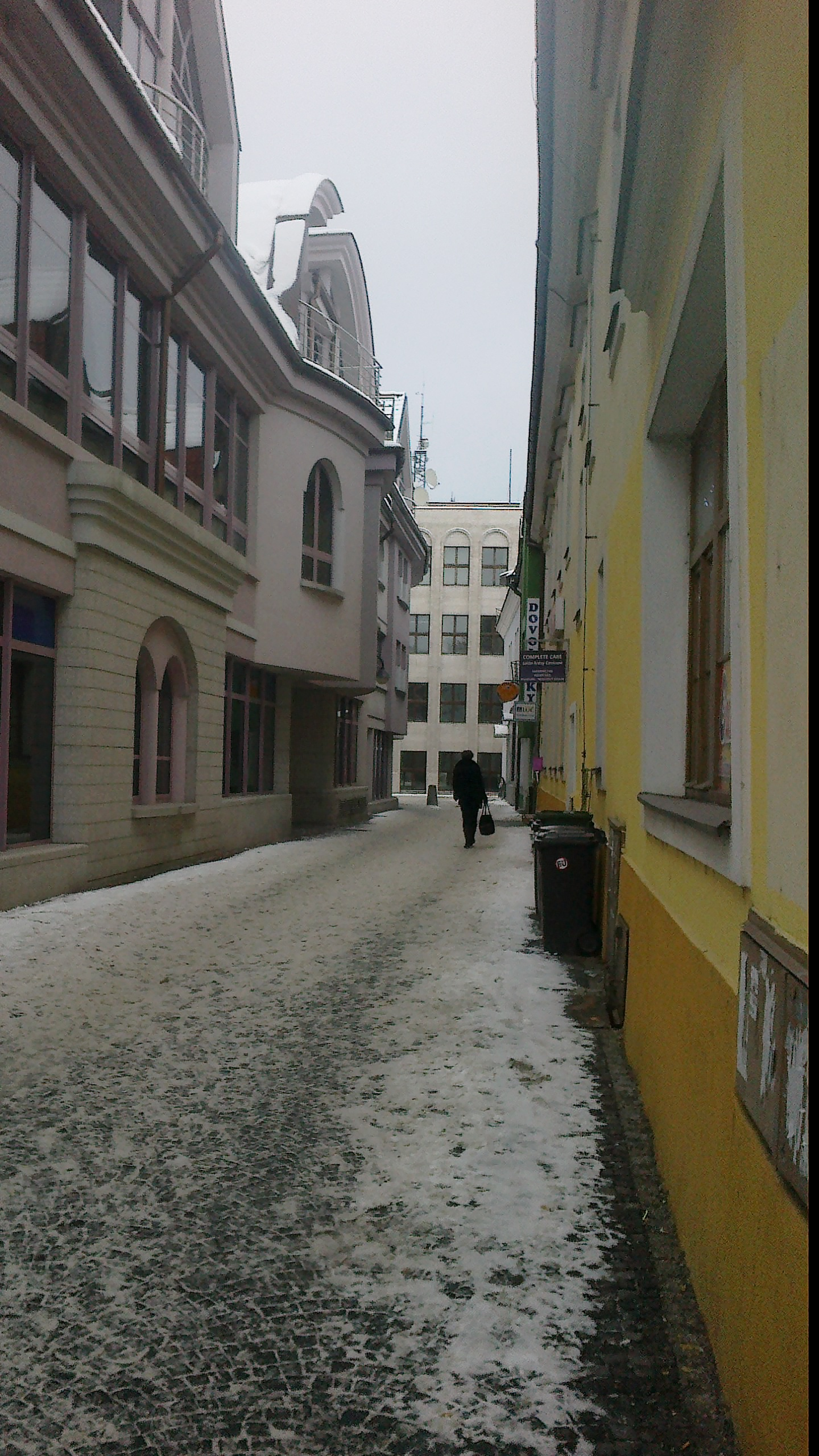 This is a street "Burianova medzierka".